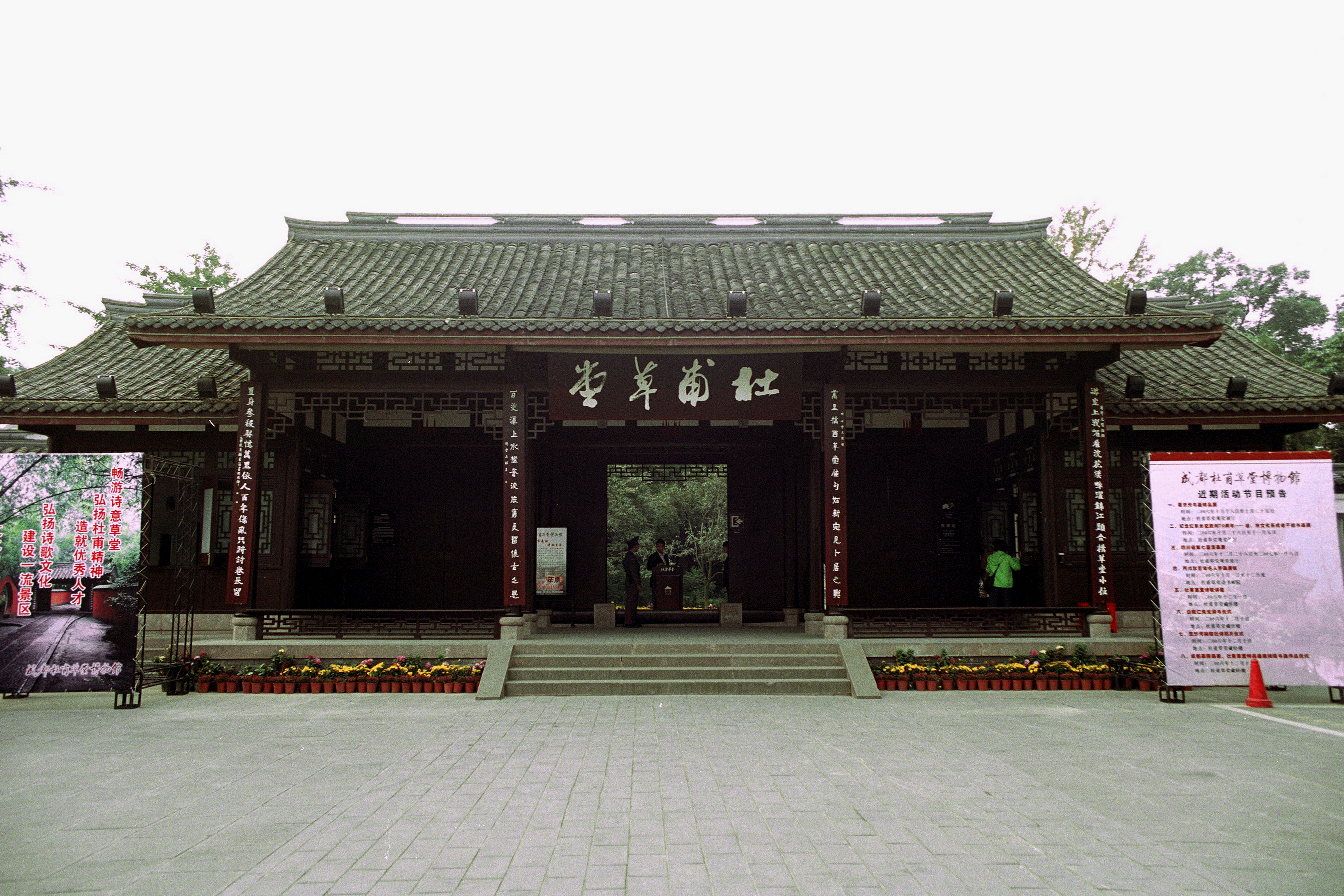 成都杜甫草堂；The Thatched Cottage of Du Fu in Chengdu